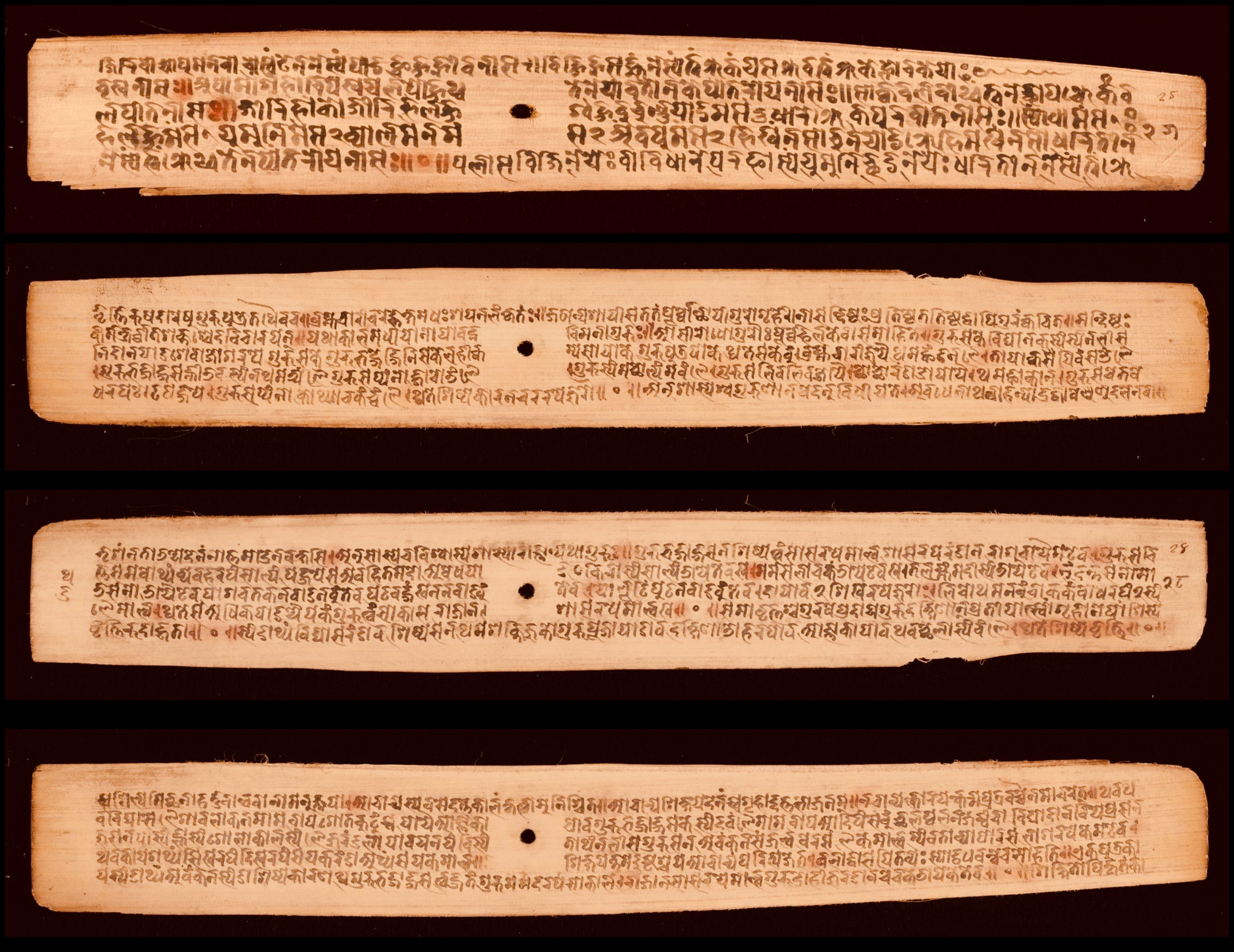 This is the manuscript of the primary dharma-shastra text on legal matters in the Malla Hindu kingdom in the Himalayas. It is called the Naradasmriti, or in some parts of India as Naradiyamanusmriti. The language is Sanskrit, but the script is a Nepalese variant found in the history of Newar people. The original scribe signed his name as Ramadatta. According to the Indologist Richard Lariviere, it is likely that the Naradasmriti was the legal text adopted and implemented by the Malla kings in their region, rather than one of the many other dharmasastra texts. Cecil Bendall purchased this manuscript in 1885 somewhere in Western or Northern India, according to archival notes. It is embedded inside the Mānavanyāyaśāstraṭīkā manuscript, which is a commentary on Naradasmriti – this primary text. It starts on folio 28 front side (recto), in verse 5.8c. The entire manuscript, this text and the tika is a set, which is now archived and preserved as MS Add.2137 at the Cambridge University LIbrary. Language: Sanskrit Script: Bhujimol The photo above is of a 2D artwork created before the 19th-century, and purchased in 1885. The artwork and this 2D photograph, therefore, fall under Wikimedia Commons PD-Art licensing guidelines. Any rights I have as a photographer is herewith donated to wikimedia commons under CC 4.0 license.